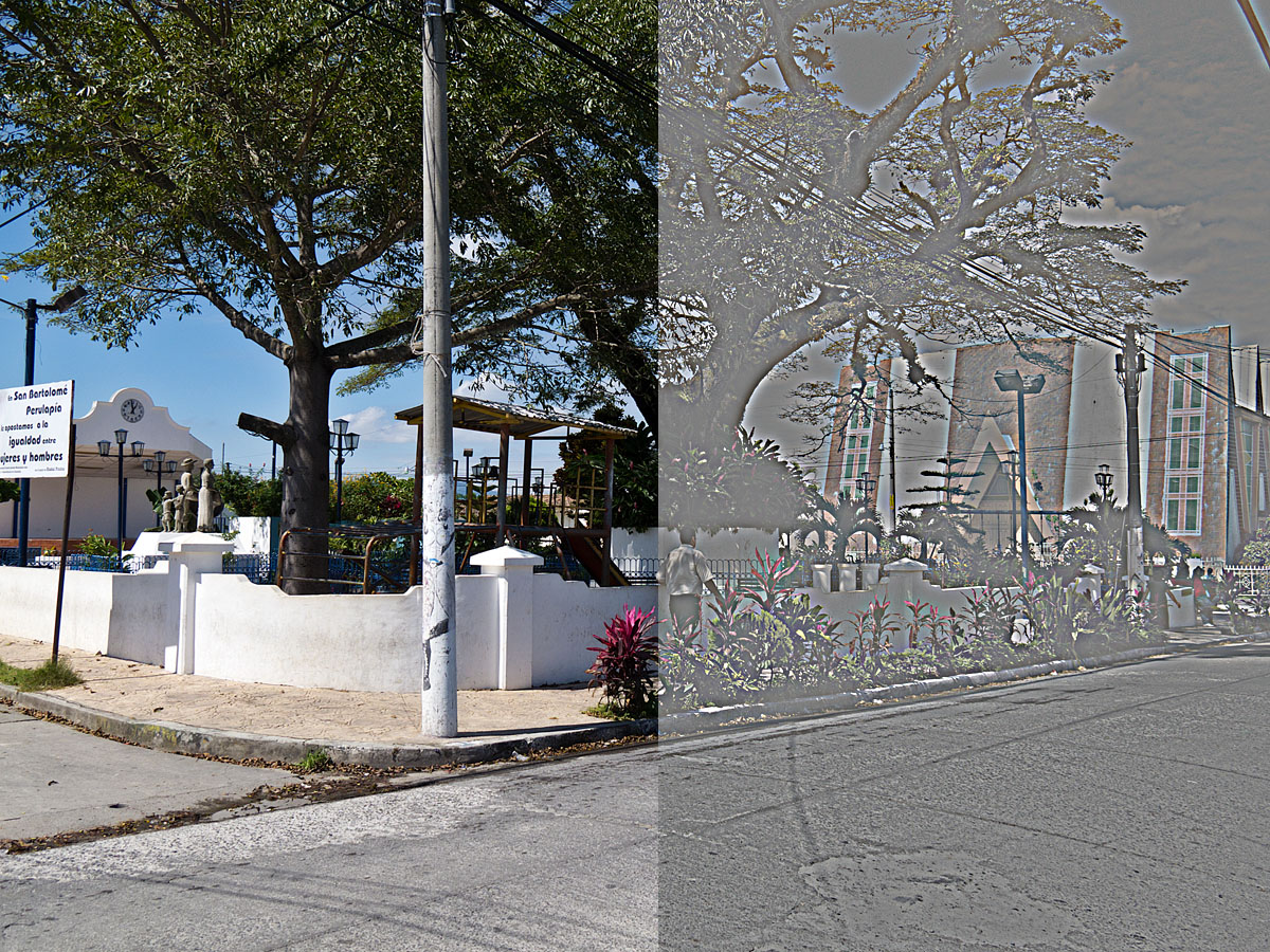 Example of High Pass Filter (Adobe Photoshop CS5) applied to the right hand side of a photograph.